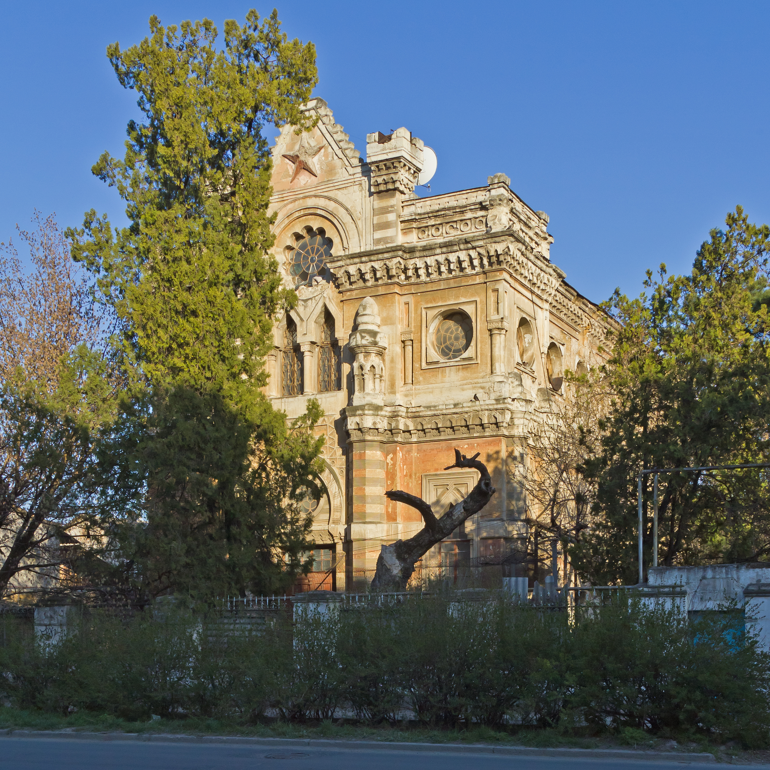 The former Kenesa in Simferopol, Crimean Peninsula.